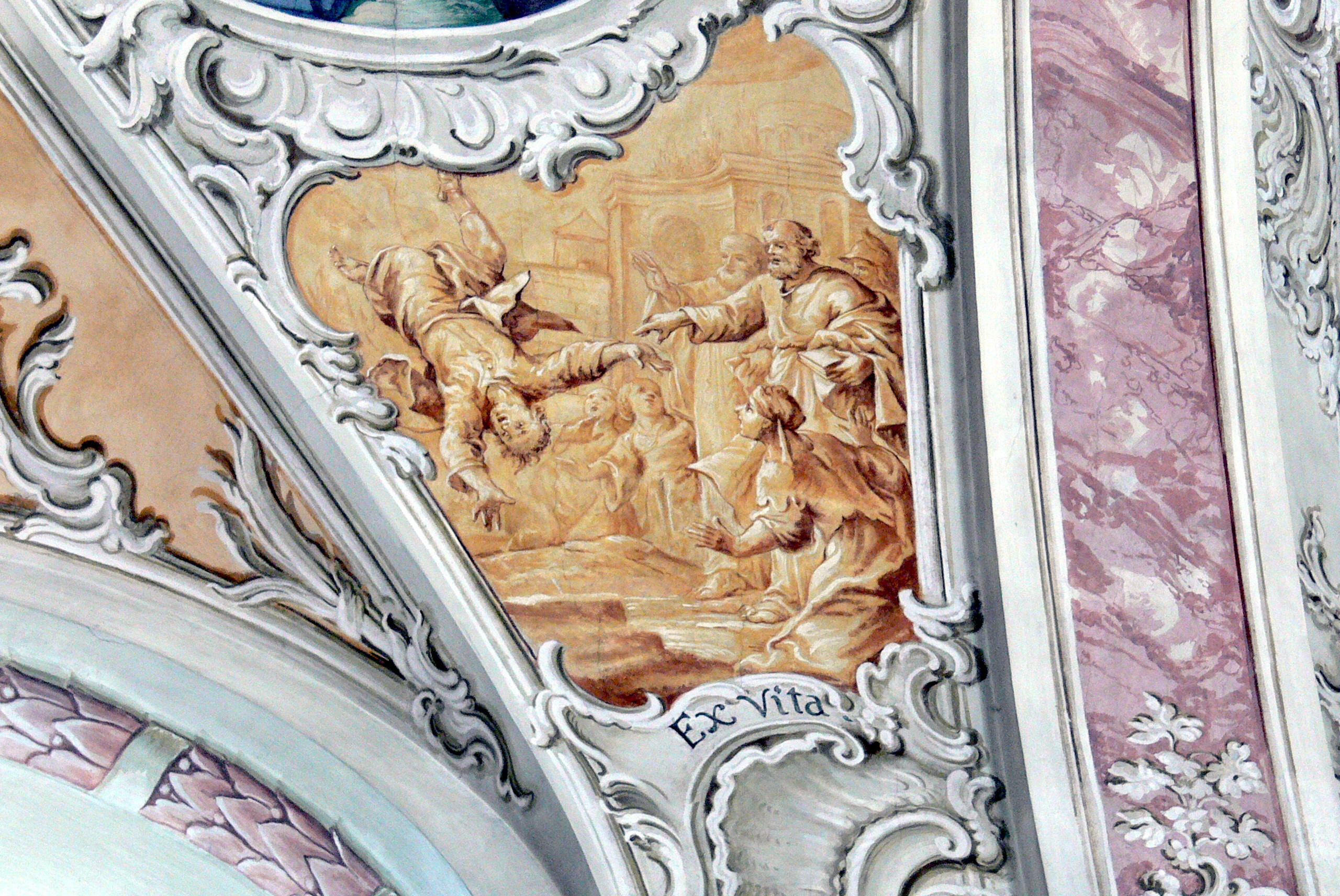 St.Peter and Paul parish church in Söll ( Tyrol ). Rococo frescos ( 1768 ) by Christoph Anton Mayr: Fall of Simon Magus.